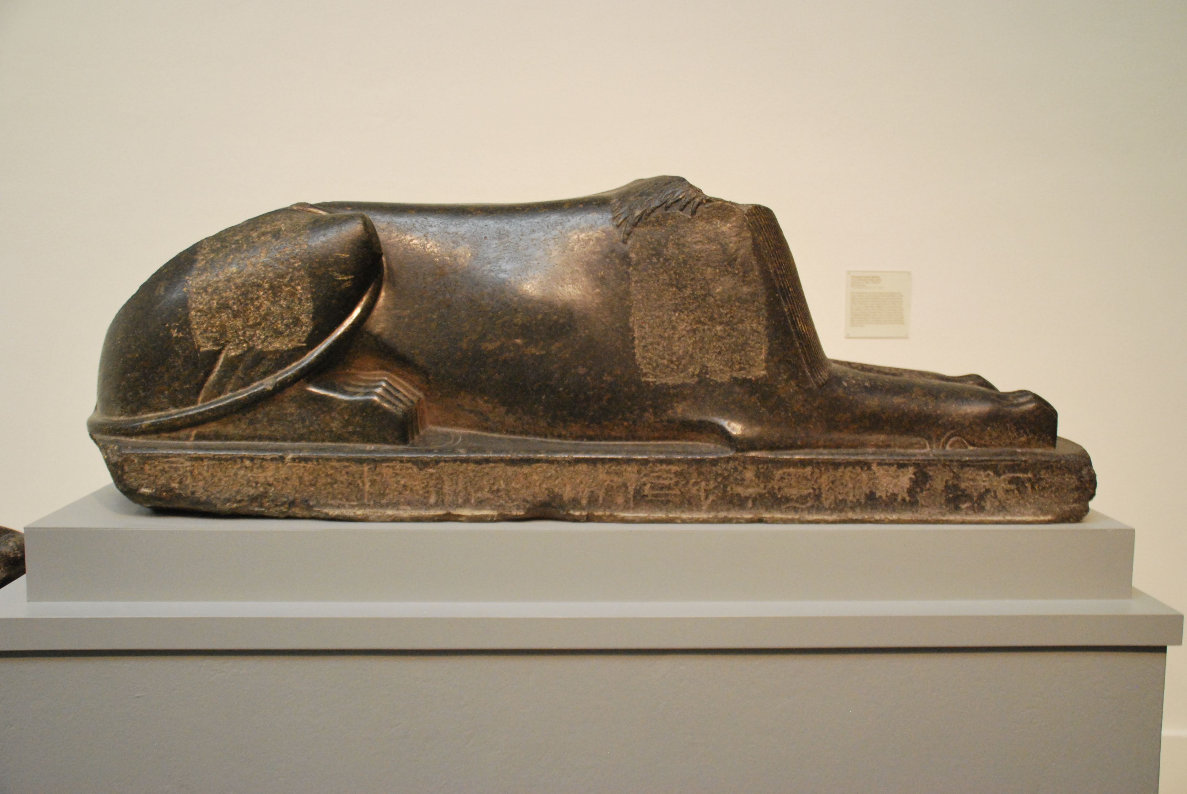 Usurped royal sphinx from Nebesheh; black granite; Dynasty 12; Acc. MFA 88.747.